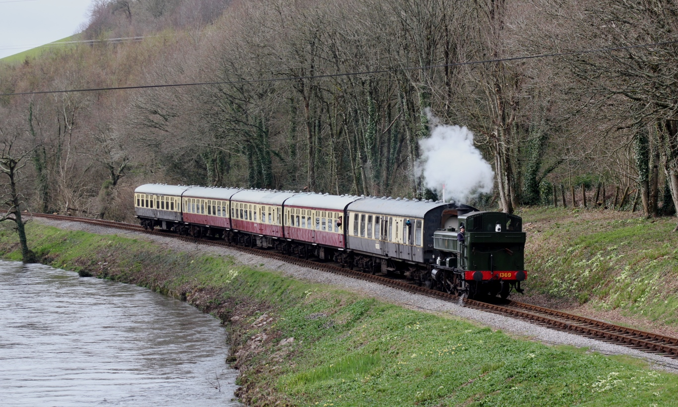 Pannier tank 1369 runs alongside the River Dart as it makes its way from Buckfastleigh towards Totnes on the South Devon Railway.